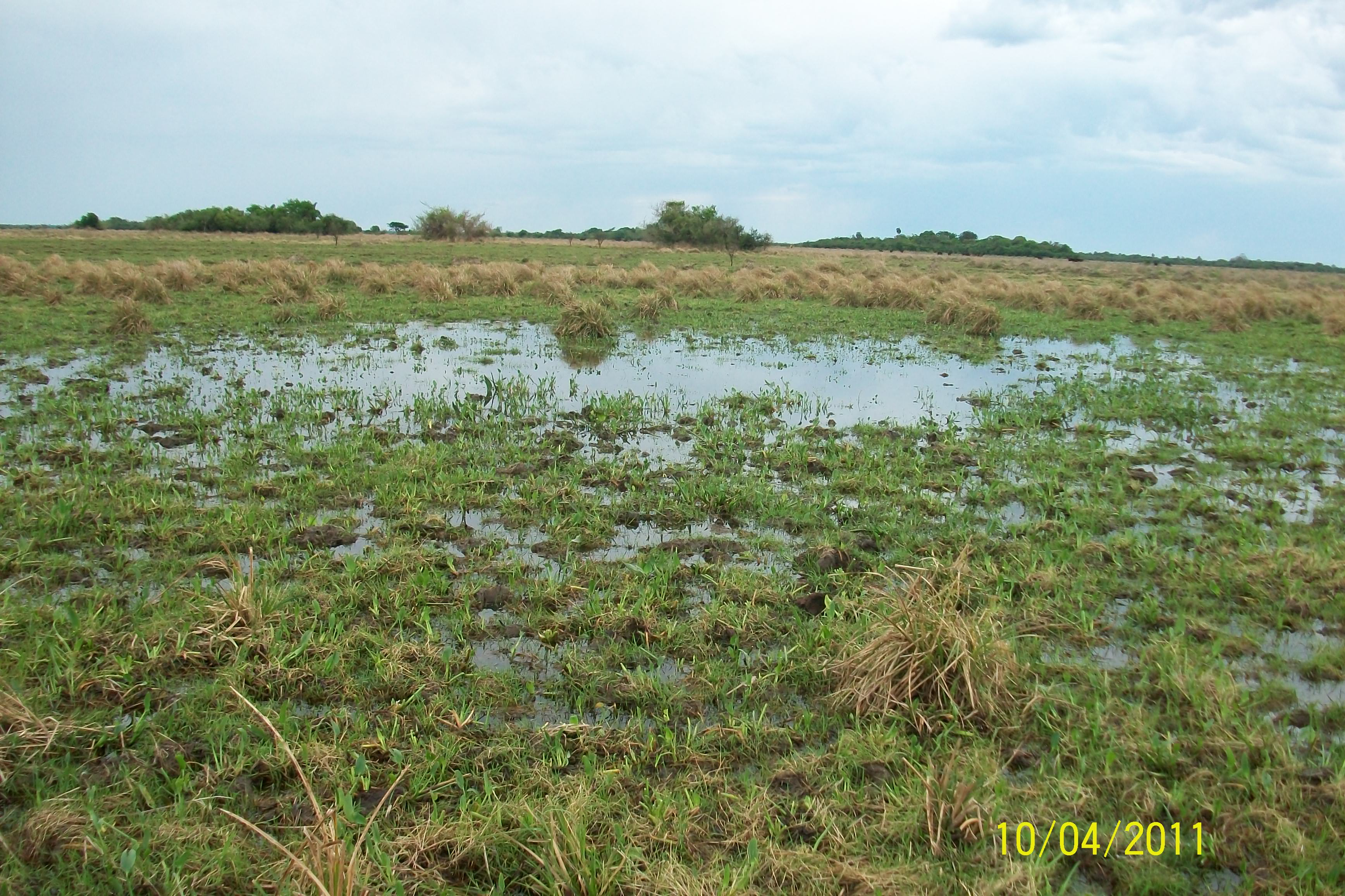 Wetlands in Argentina. These are breeding grounds for the mosquitoes that spread dengue fever.